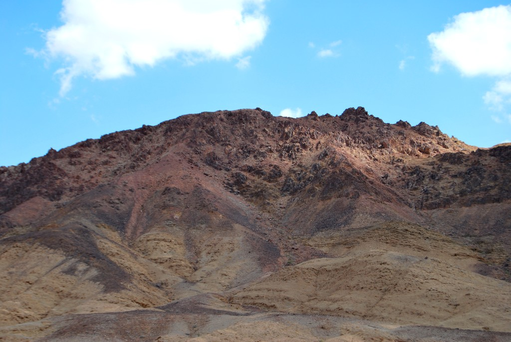 Shen Ramon - a stock in Makhtesh Ramon